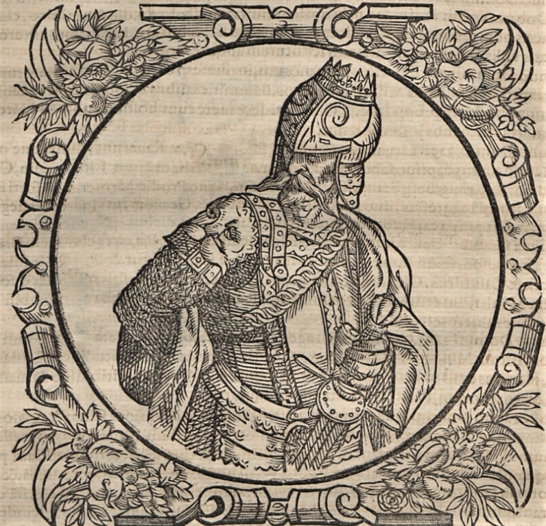 Grand Duke of Lithuania Gediminas - engraving of XVII ct.